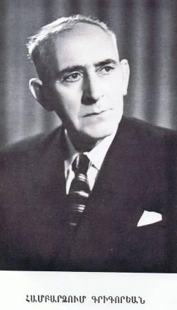 Hambarsoom Grigorian composer and the founder and director of the “Komitas” choir.